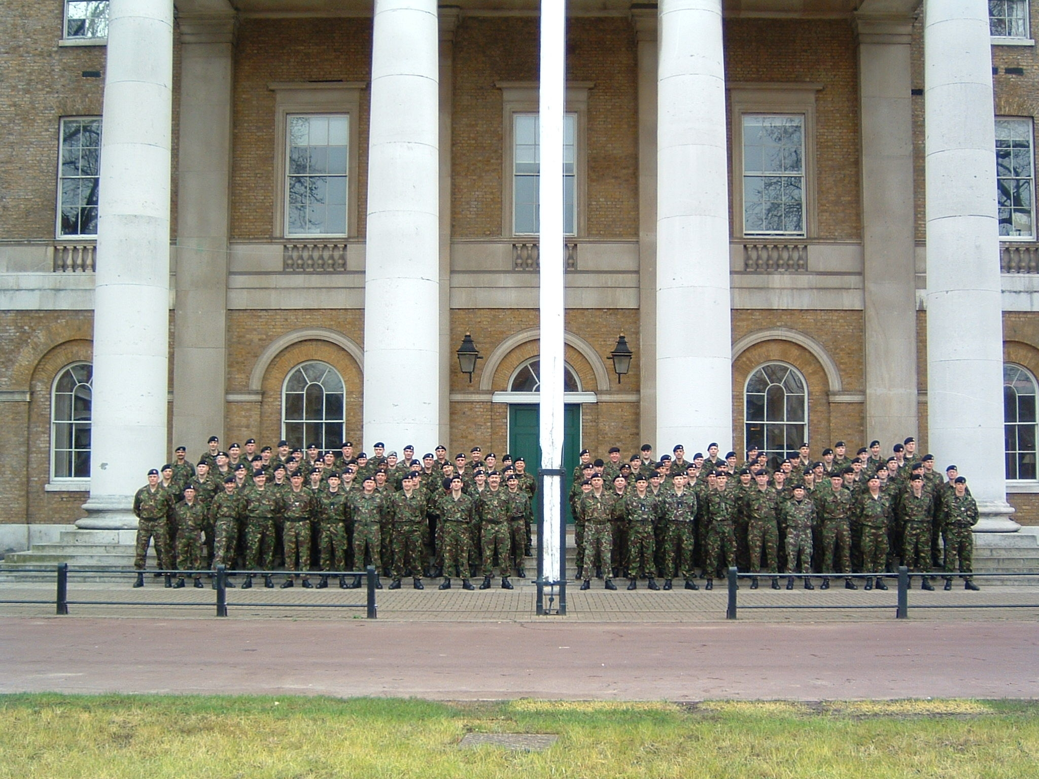 Author: Conn MacEvilly